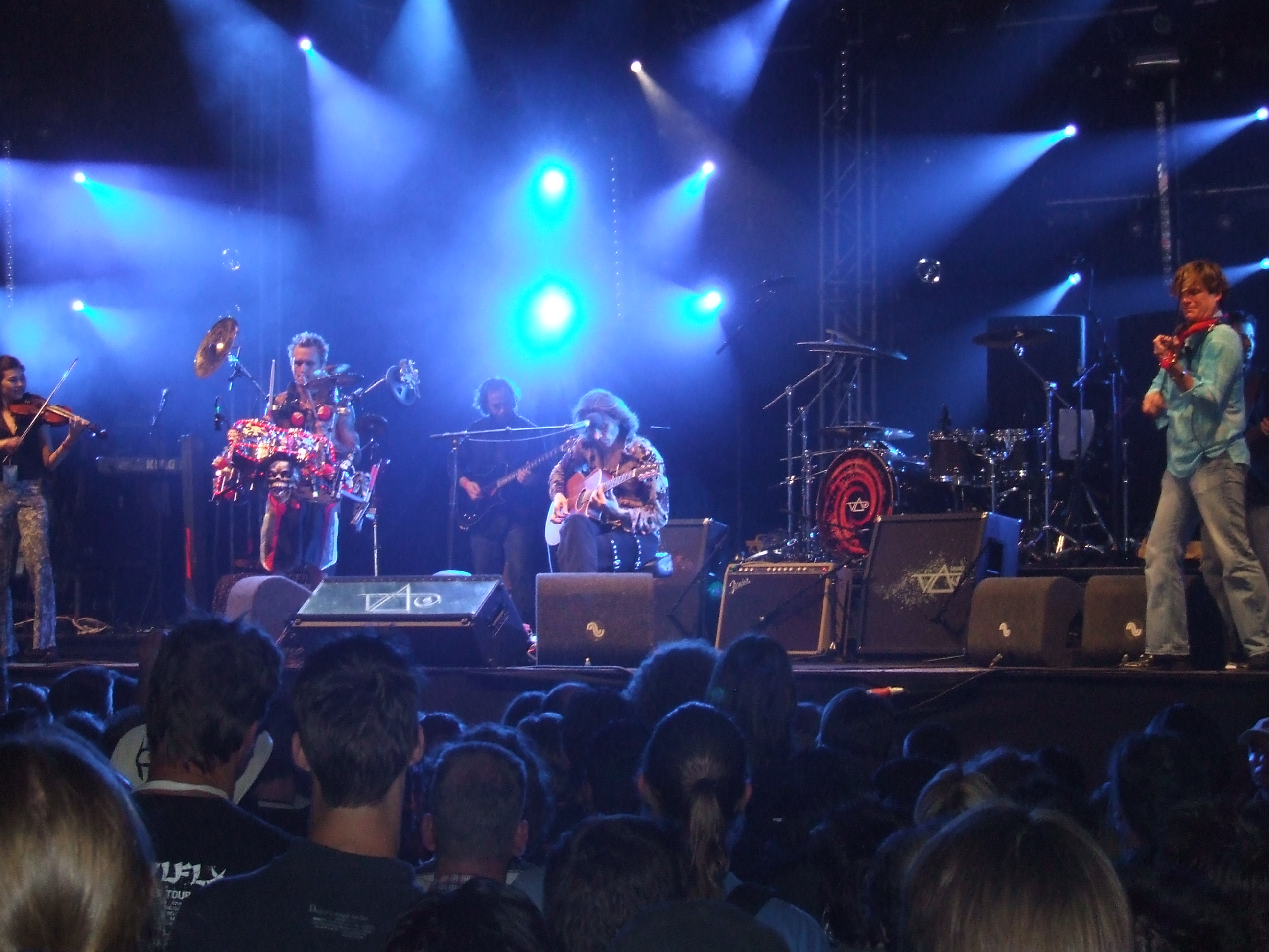 Steve and band at Arrow Rock Festival, Biddinghuizen, The Netherlands